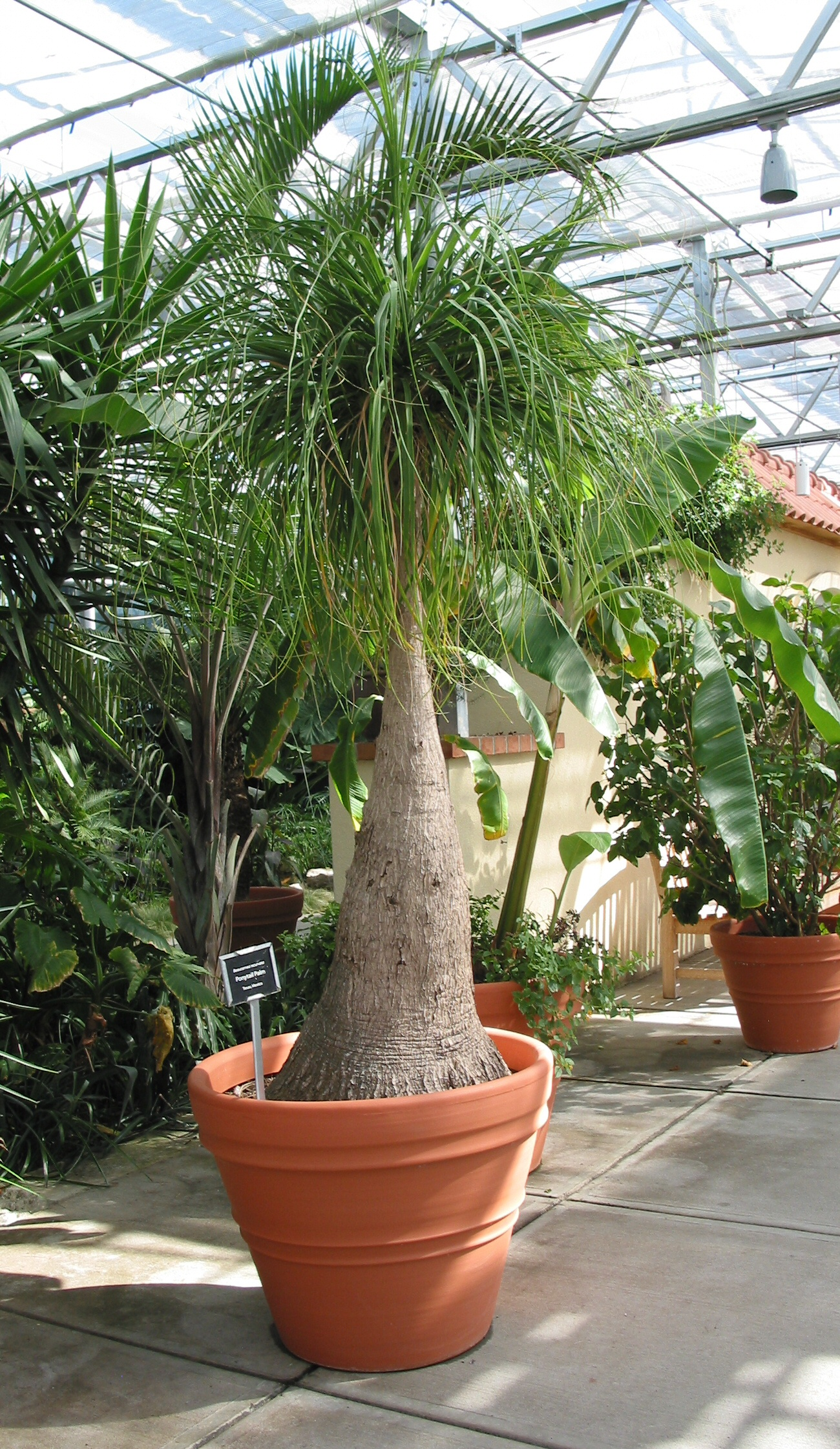 Beaucarnea recurvata (Ponytail Palm) Roger Williams Park Botanical Center - Providence RI.